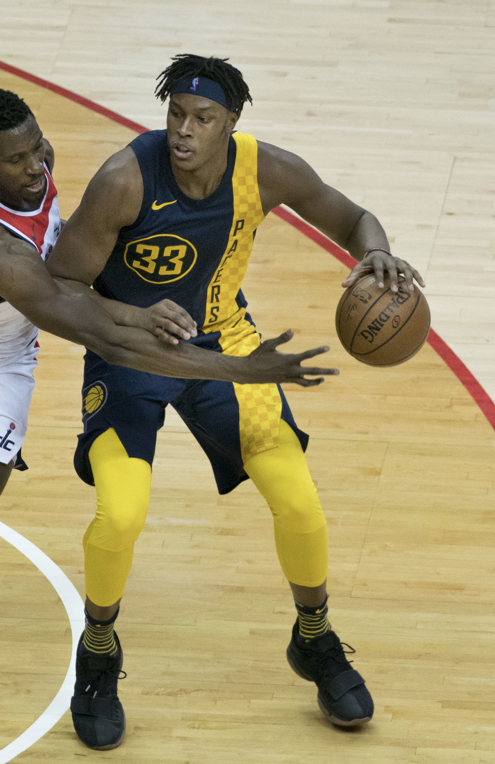 Pacers at Wizards 3/4/18